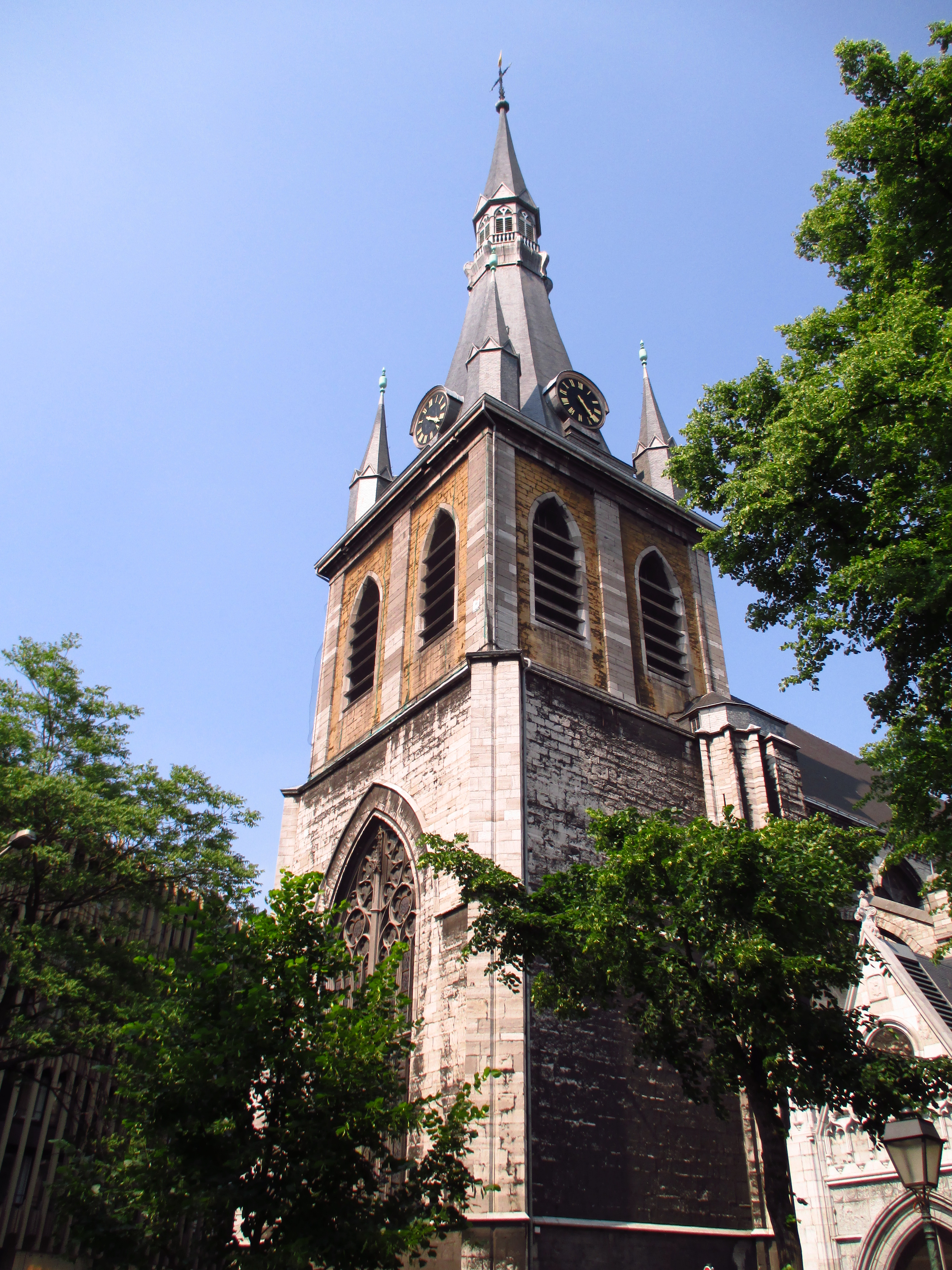 Tower of St Paul's Cathedral, in Liege (Belgium)